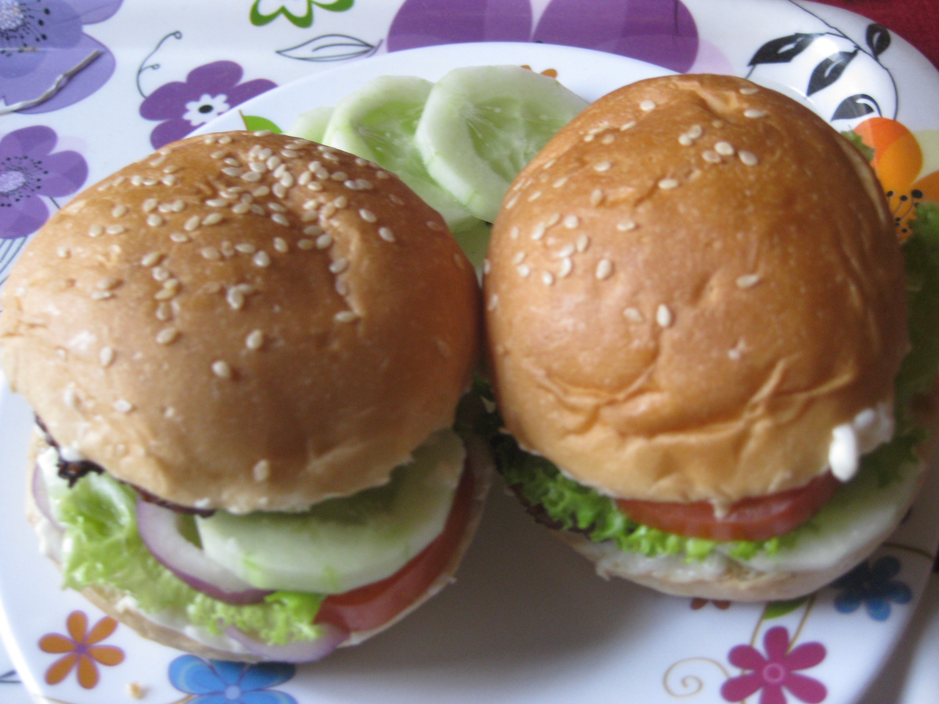 Homemade Chicken Burger made in 18 March, 2014 in Dhaka, Bangladesh.